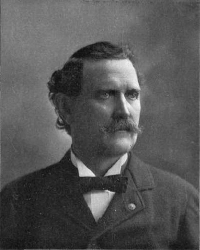 John Riley Tanner Caption: Governor John R. Tanner, of Illinois